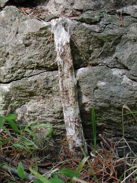 Sphodros sp. tube, Appalachia.